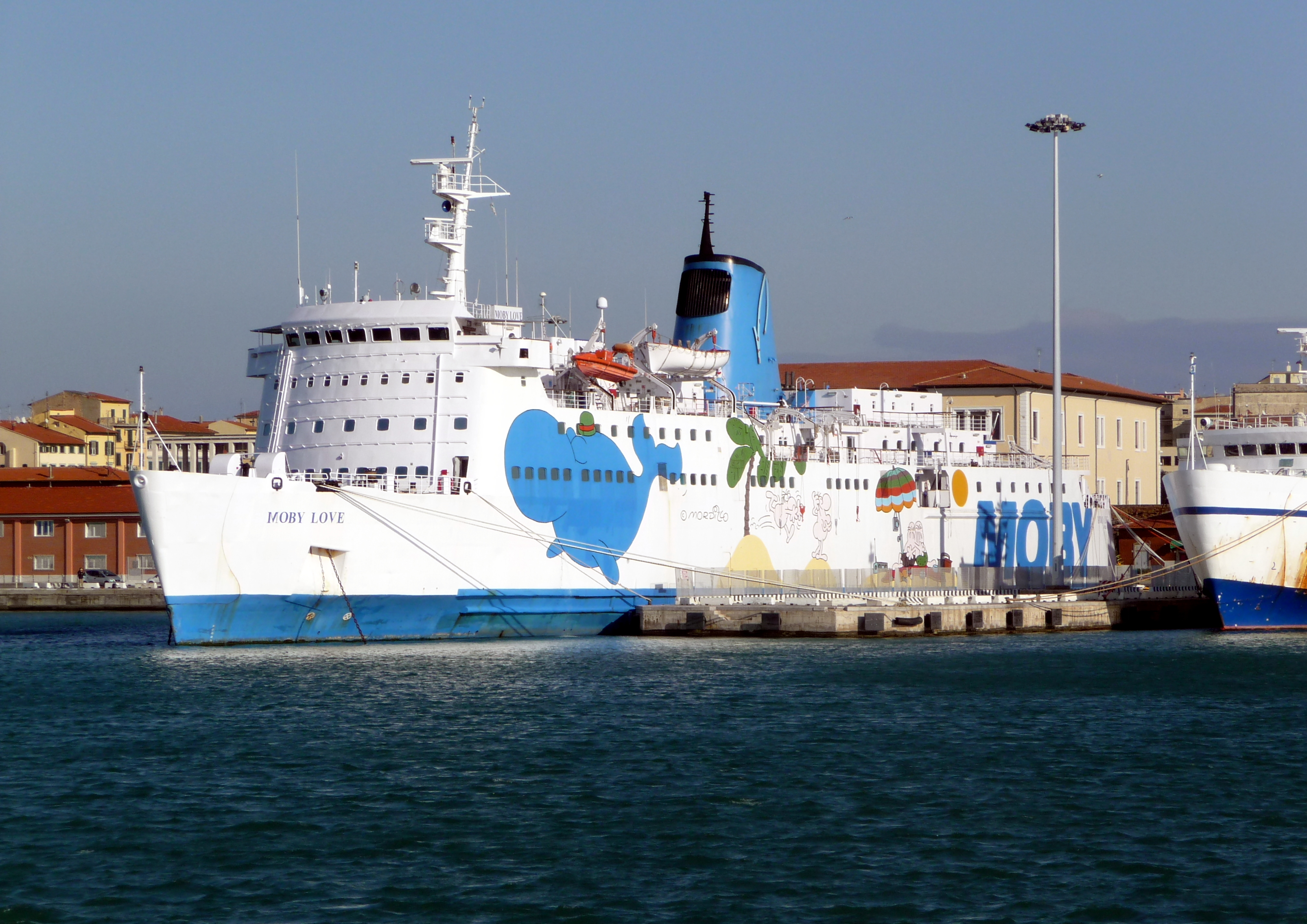 Ferry "Moby Love", Moby Lines - Livorno port